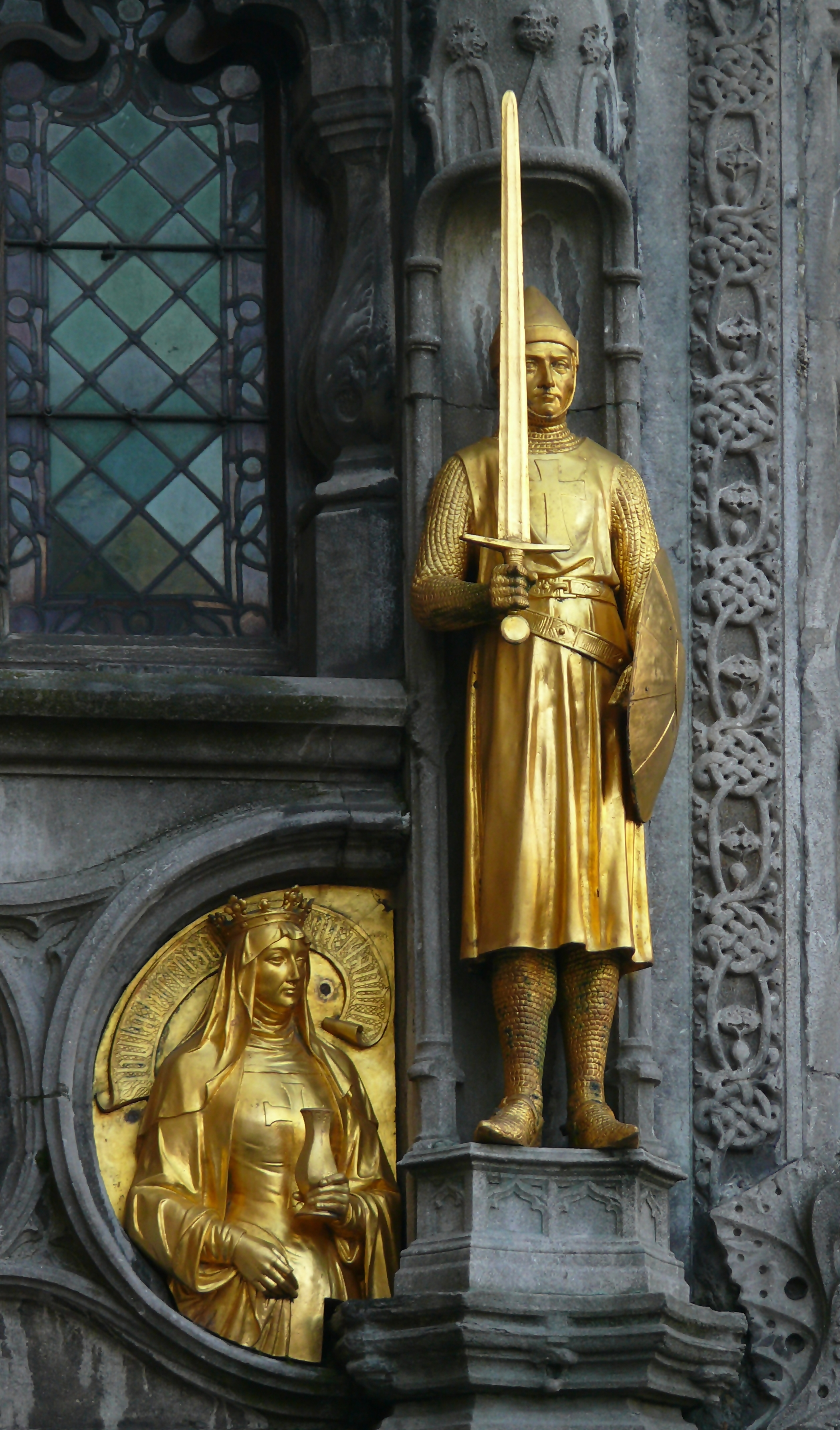 Gilded statue of Thierry, Count of Flanders on the façade of the Basilica of the Holy Blood in Bruges, Belgium. In the medallion is a guilded sculpture of his wife Sibylla of Anjou.